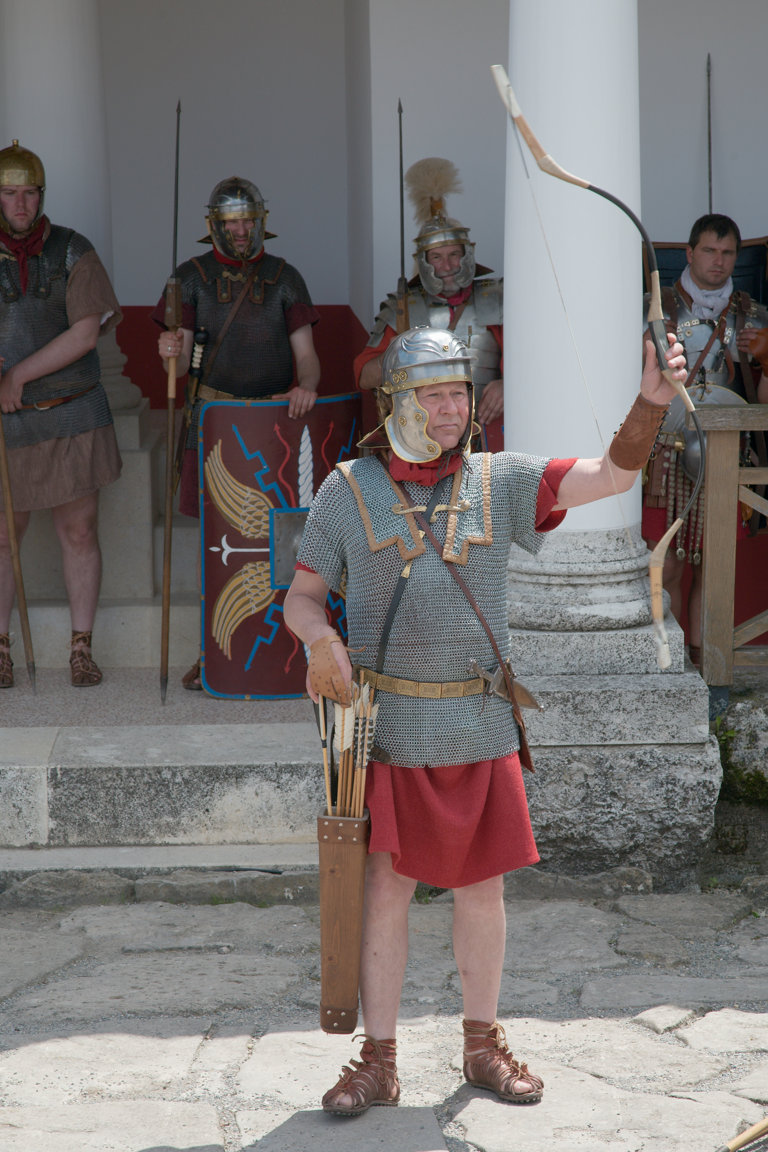 Romanauxiliar soldier with bow 1. century. Reenactment of [1]